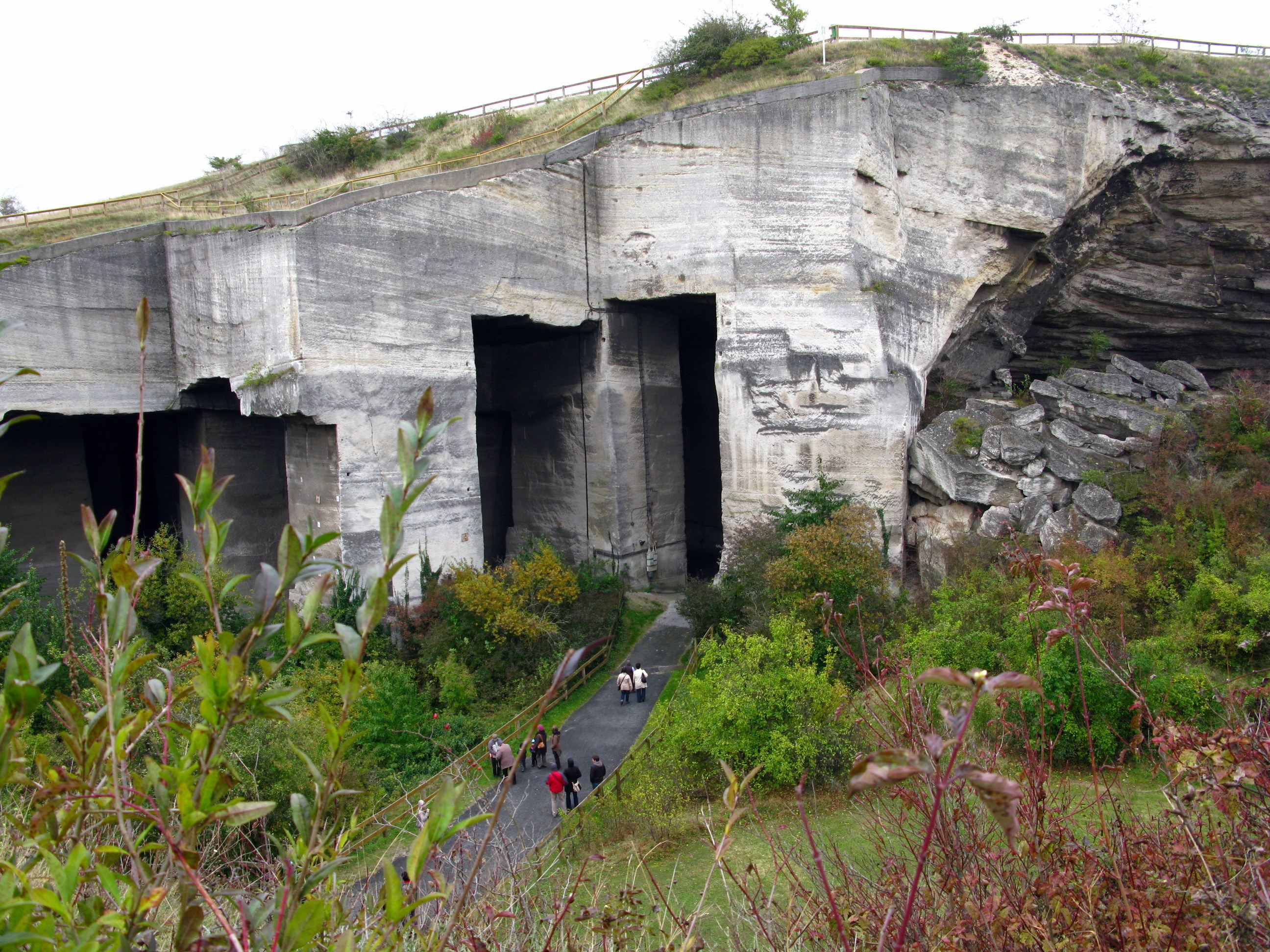 Previous Episcopal quarry of Fertőrákos near Lake Neusiedl, County Győr-Moson-Sopron / Hungary / EU.